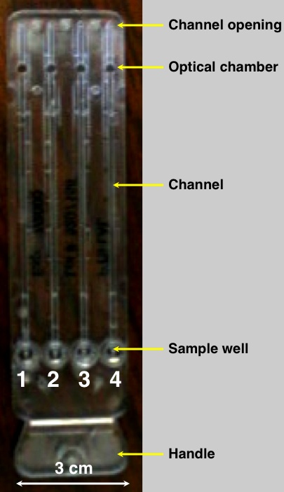 A LOCAD-PTS Cartridge, showing four sample wells, each leading to a separate channel. Located within each channel is Limulus Amebocyte Lysate (LAL), or another enzyme cascade, for the detection of endotoxin and other microbial molecules.